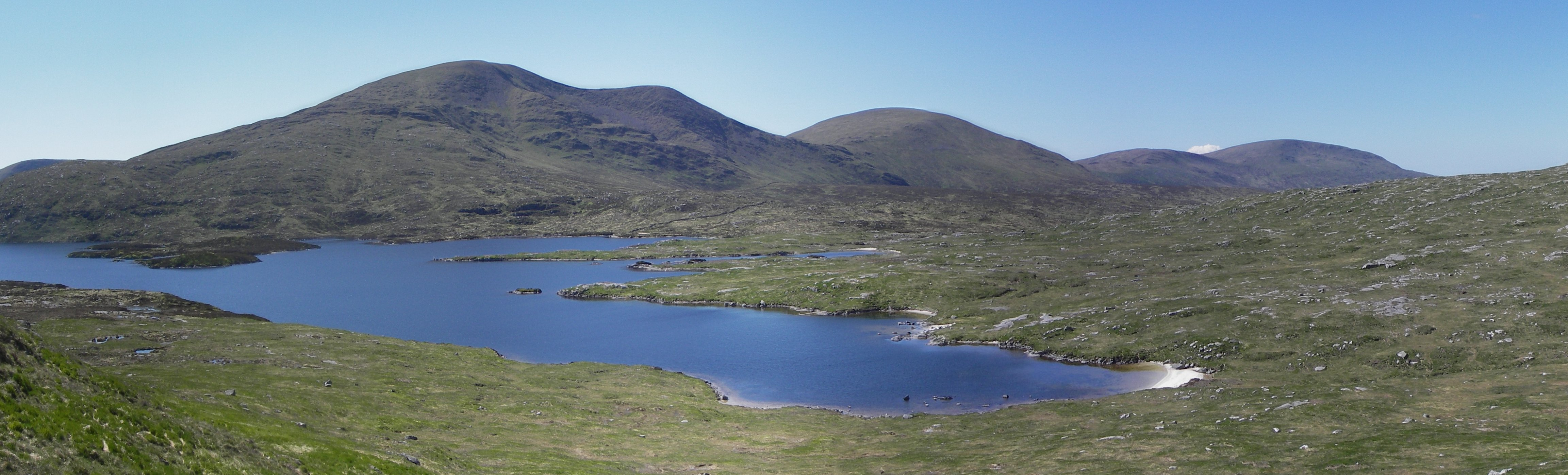 Panorama of The Range of the Awful Hand behind Loch Enoch. The highest hill is Merrick.